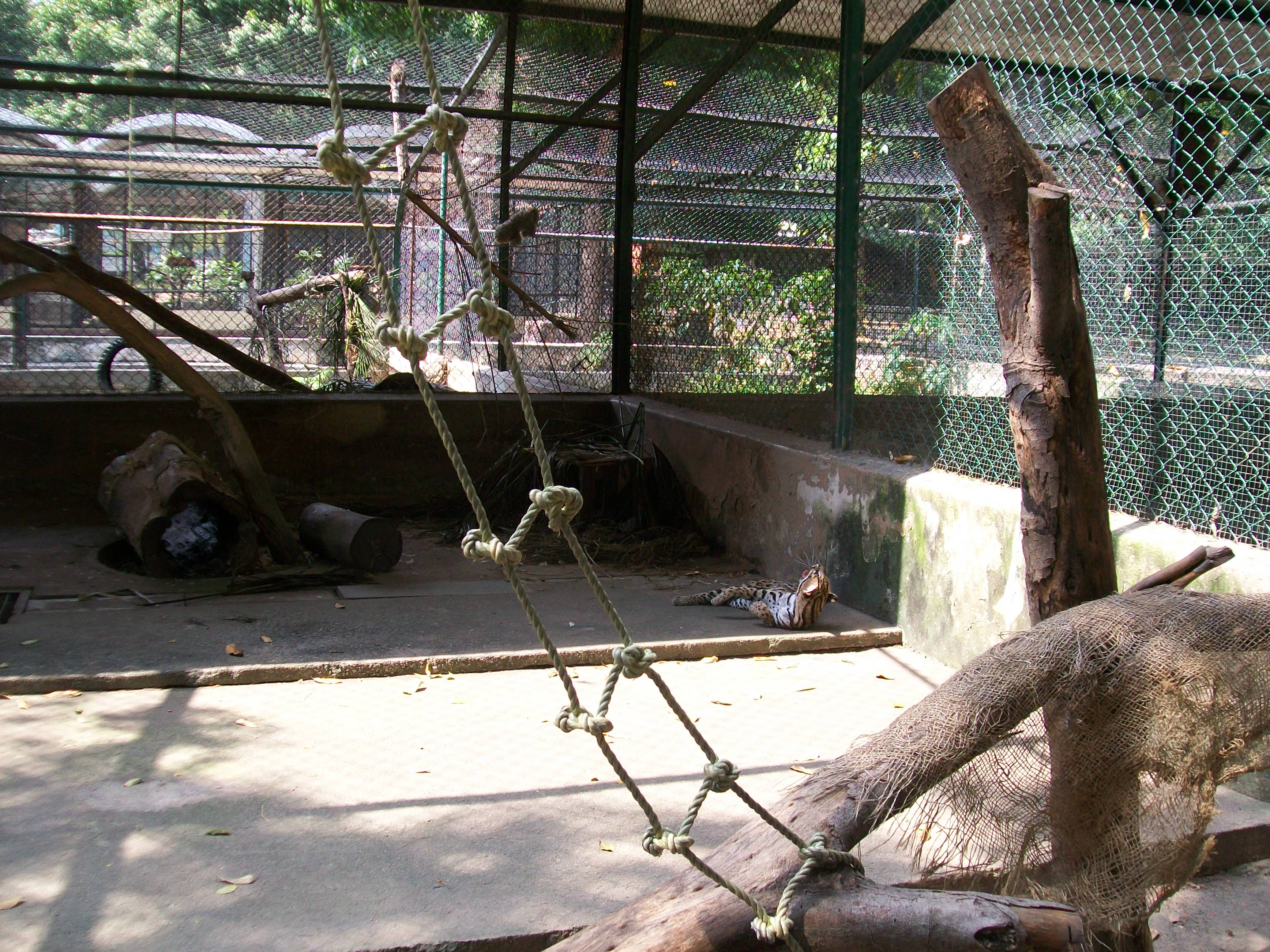 Leopardus pardalis displayed in the Maracay Zoo, Venezuela.